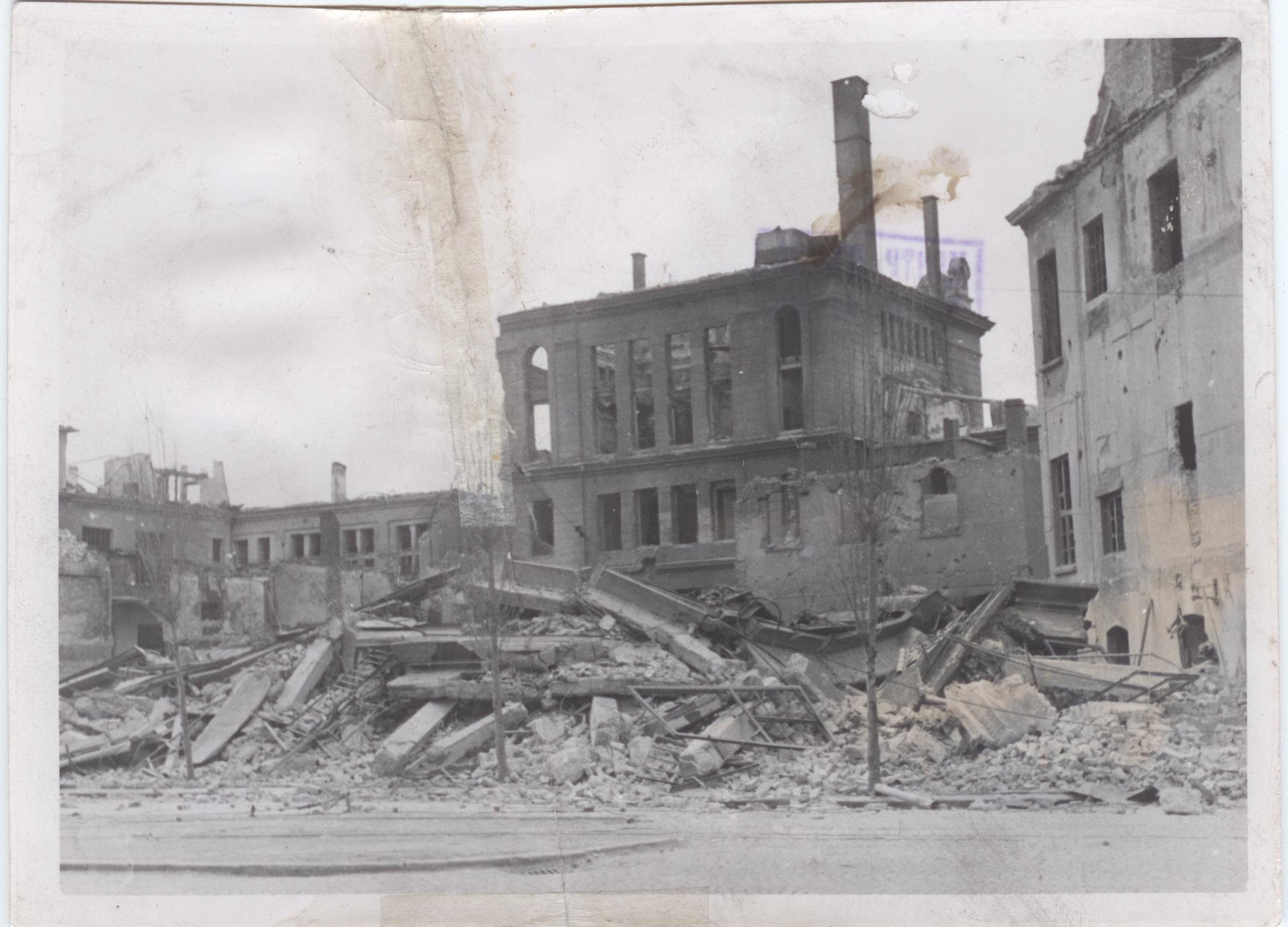 Sofia Bombings 1944: State Printing House